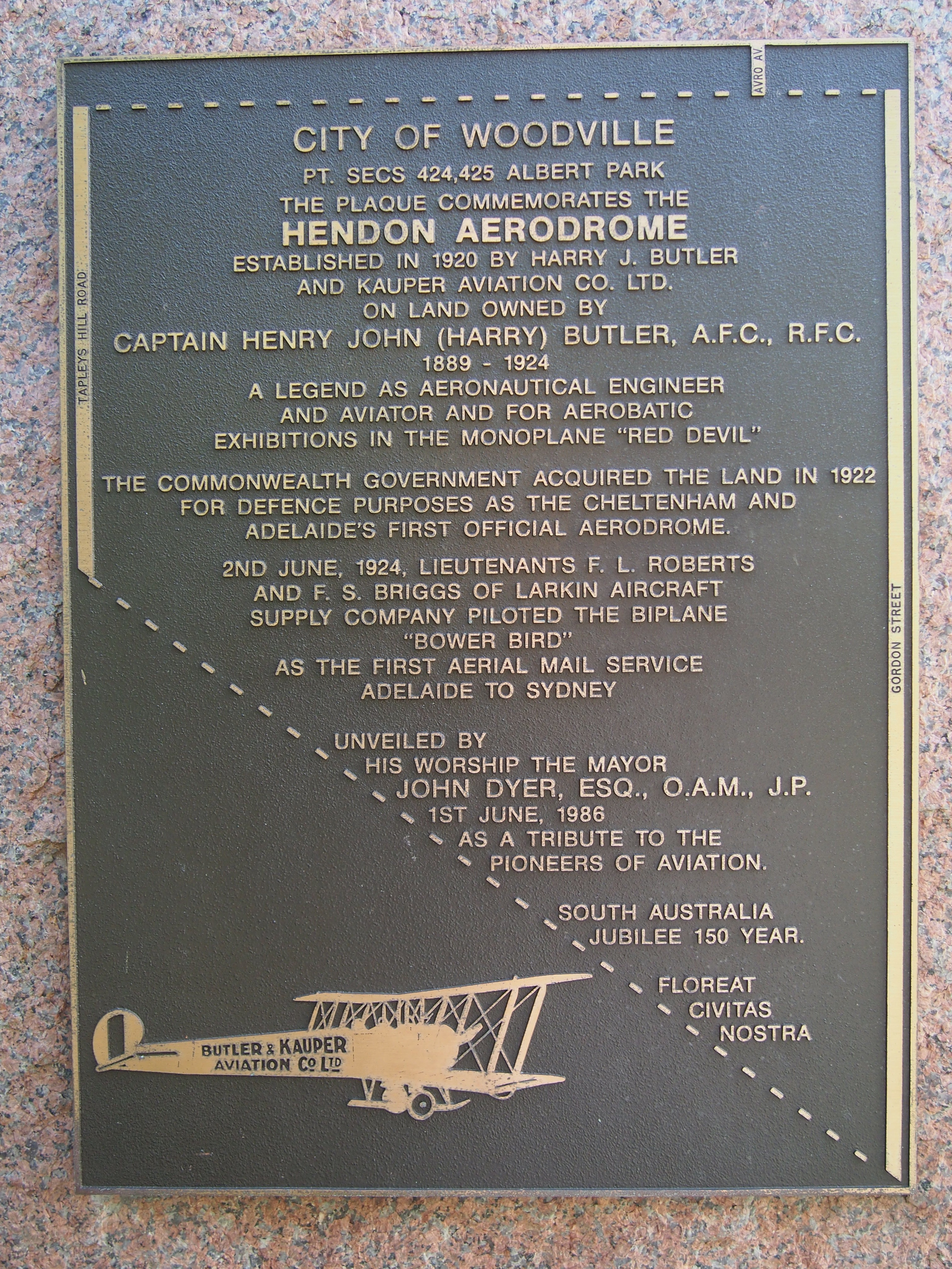 Hendon aerodrome plaque, Hendon, South Australia Original filename = P6293007.JPG